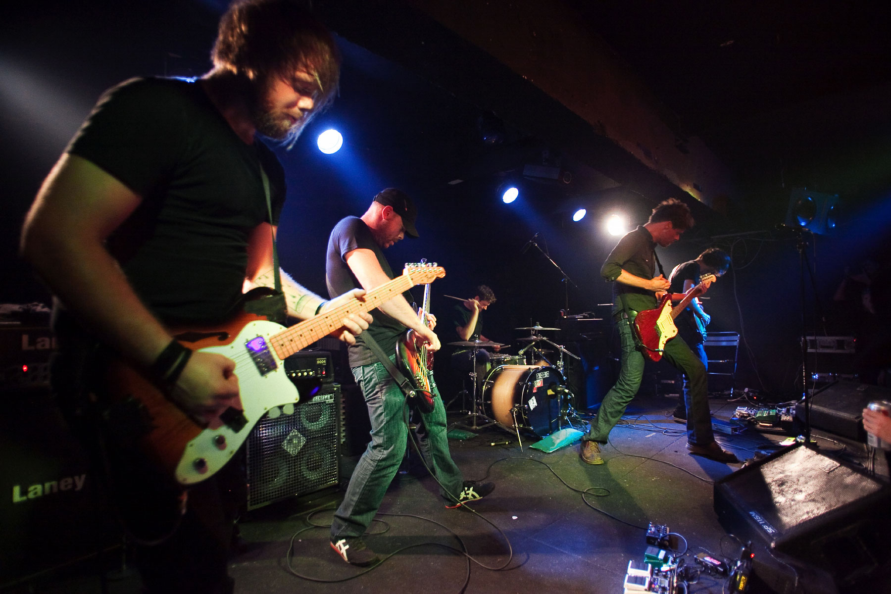 Caspian performing in Hong Kong @ Hidden Agenda, 2010; from left to right: Jonny Ashburn, Chris Friedrich, Joe Vickers, Philip Jamieson, Erin Burke-Moran